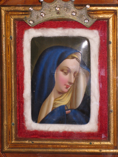 Batong Paloway